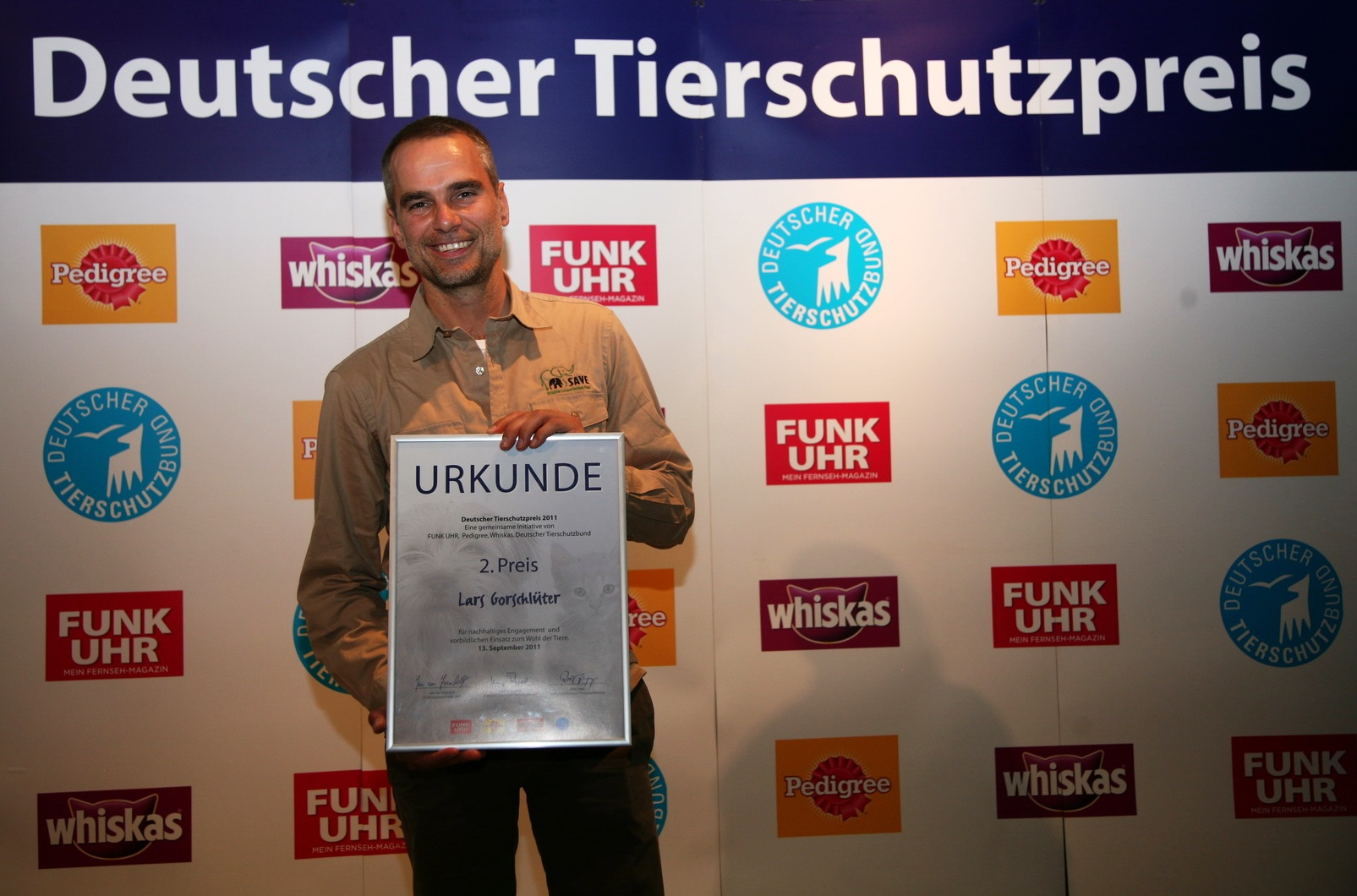 portrait